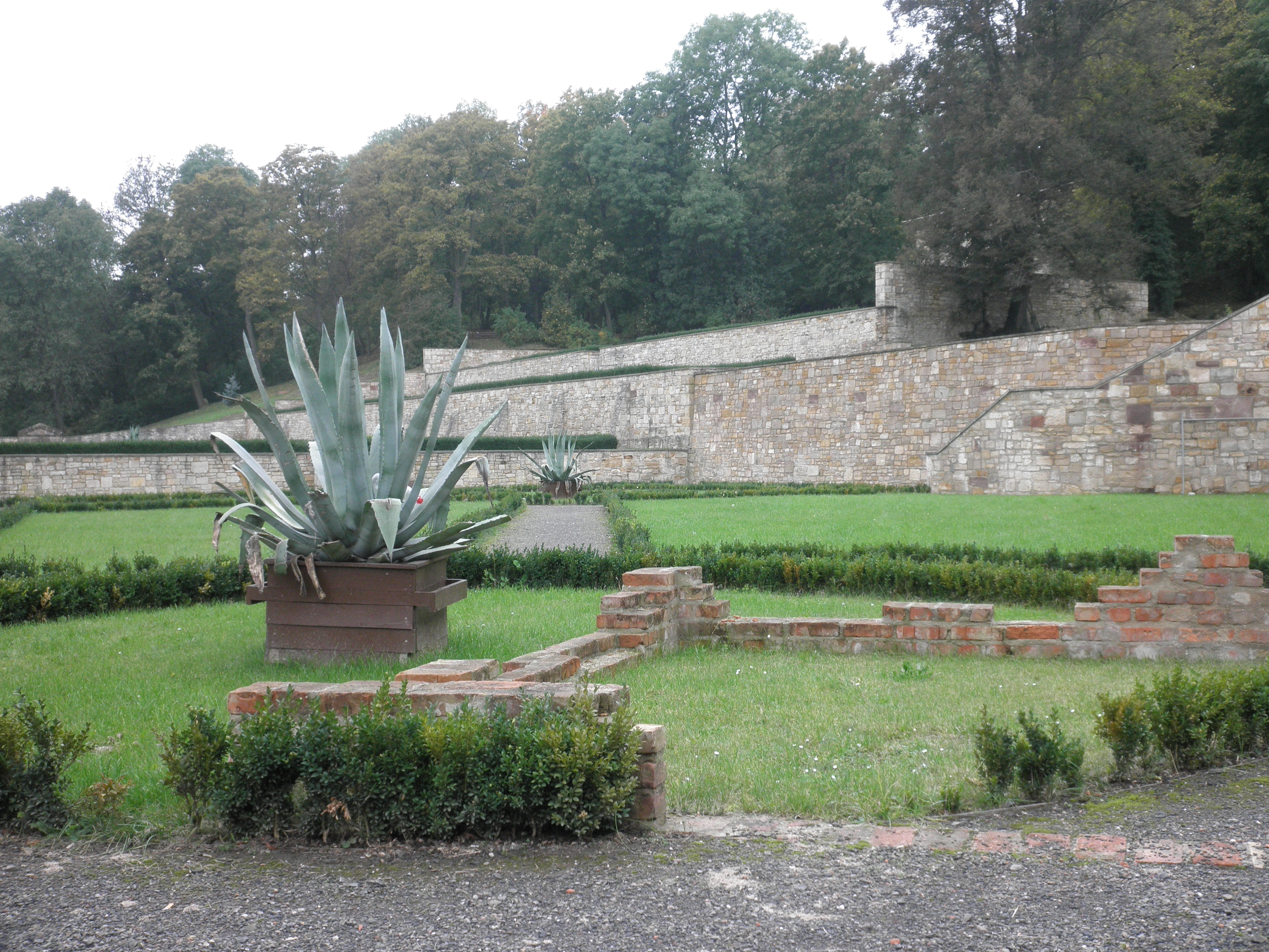 Baroque Garden St. Ulrich, Mücheln (Geiseltal)